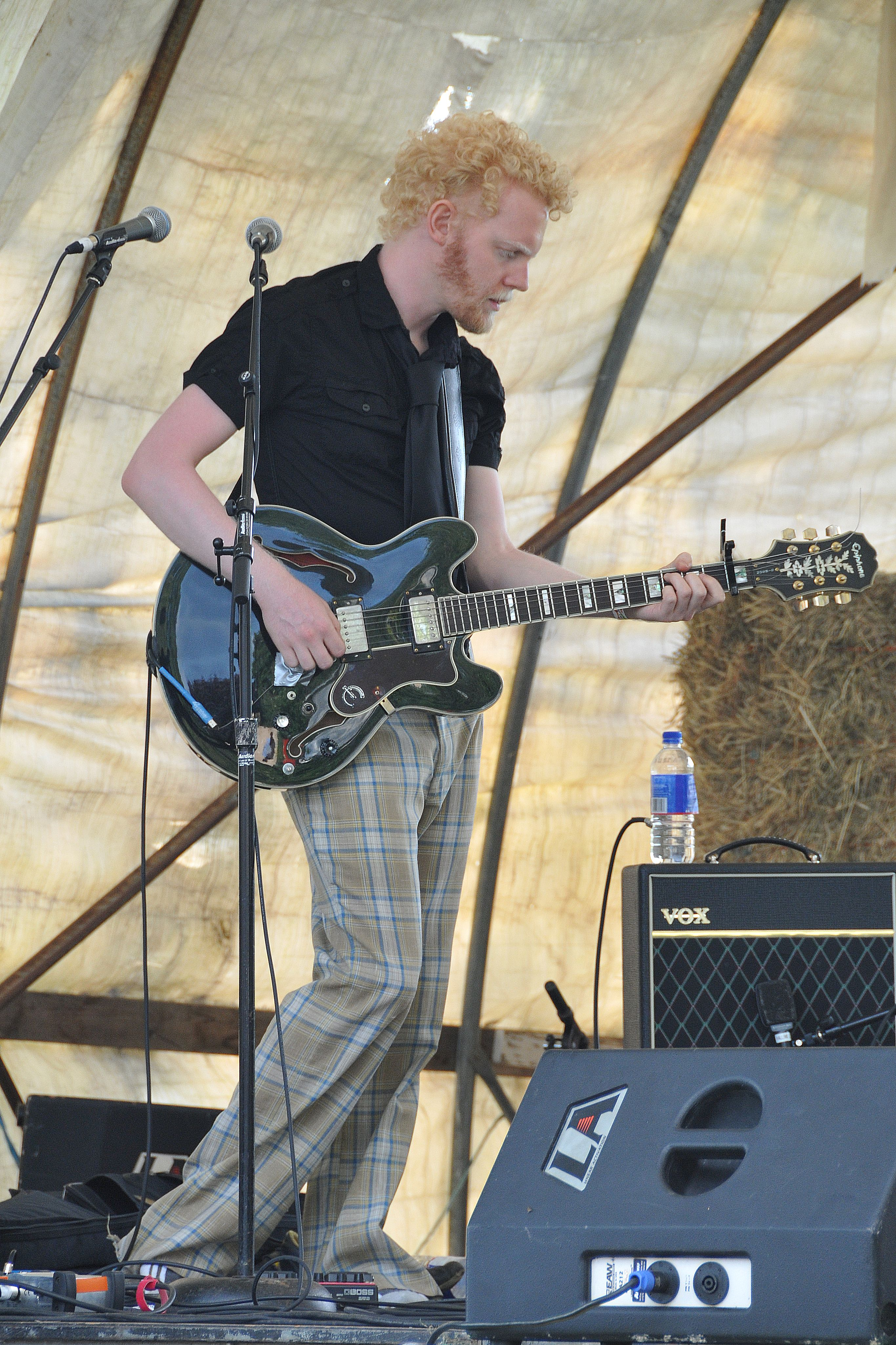 Gentleman Reg